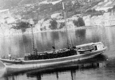 Illegal immigrants ship named "Jerusalem the besieged" at the end of WWII (1948).